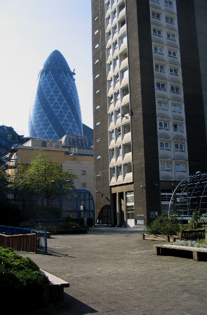 Petticoat Square, Middlesex Street, City of London. One of the few public housing estates run by the Corporation of London, Petticoat Square lies between Middlesex Street and Bishopsgate. The tower block to the right is Petticoat Tower and no prizes for naming the other tower!